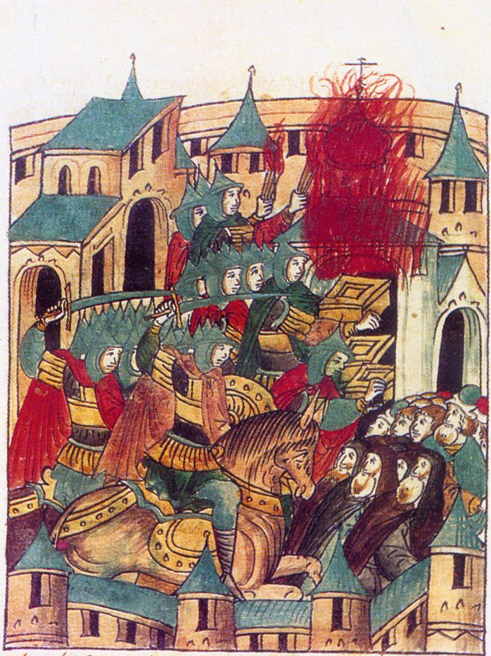 Sacking of Suzdal by Batu Khan in February, 1238. Mongol Invasion of Russia. A miniature from the sixteenth century chronicle.